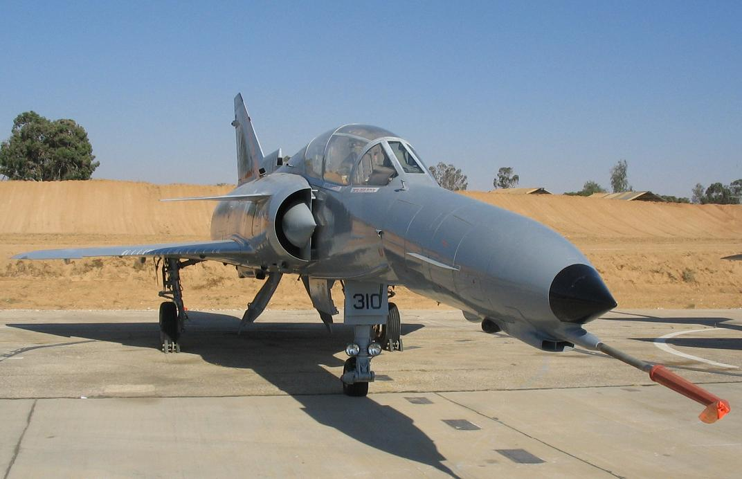 IAI Kfir C2.